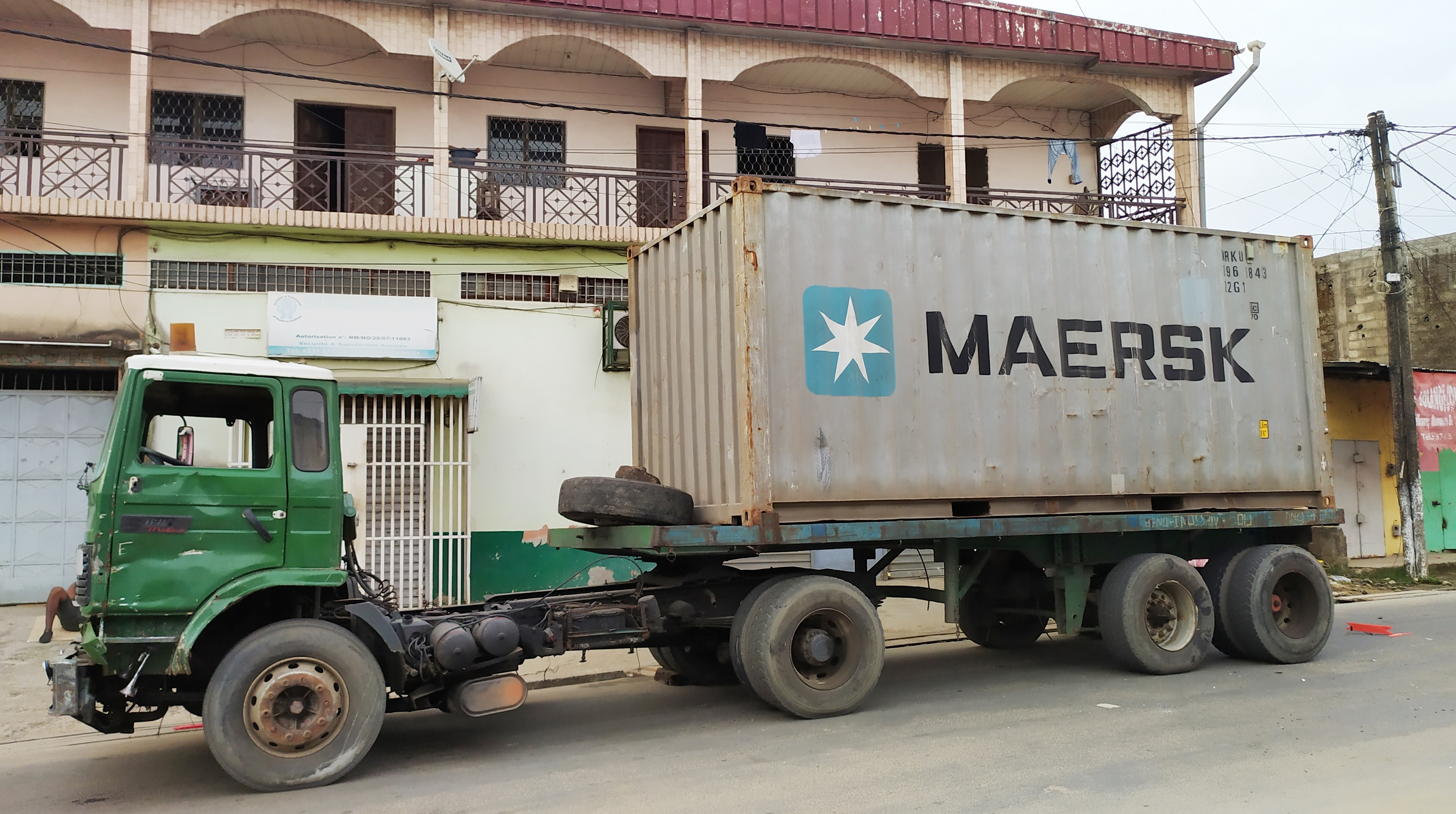 Transportation: Moving in Douala, vehicles on the roads and streets in Cameroon